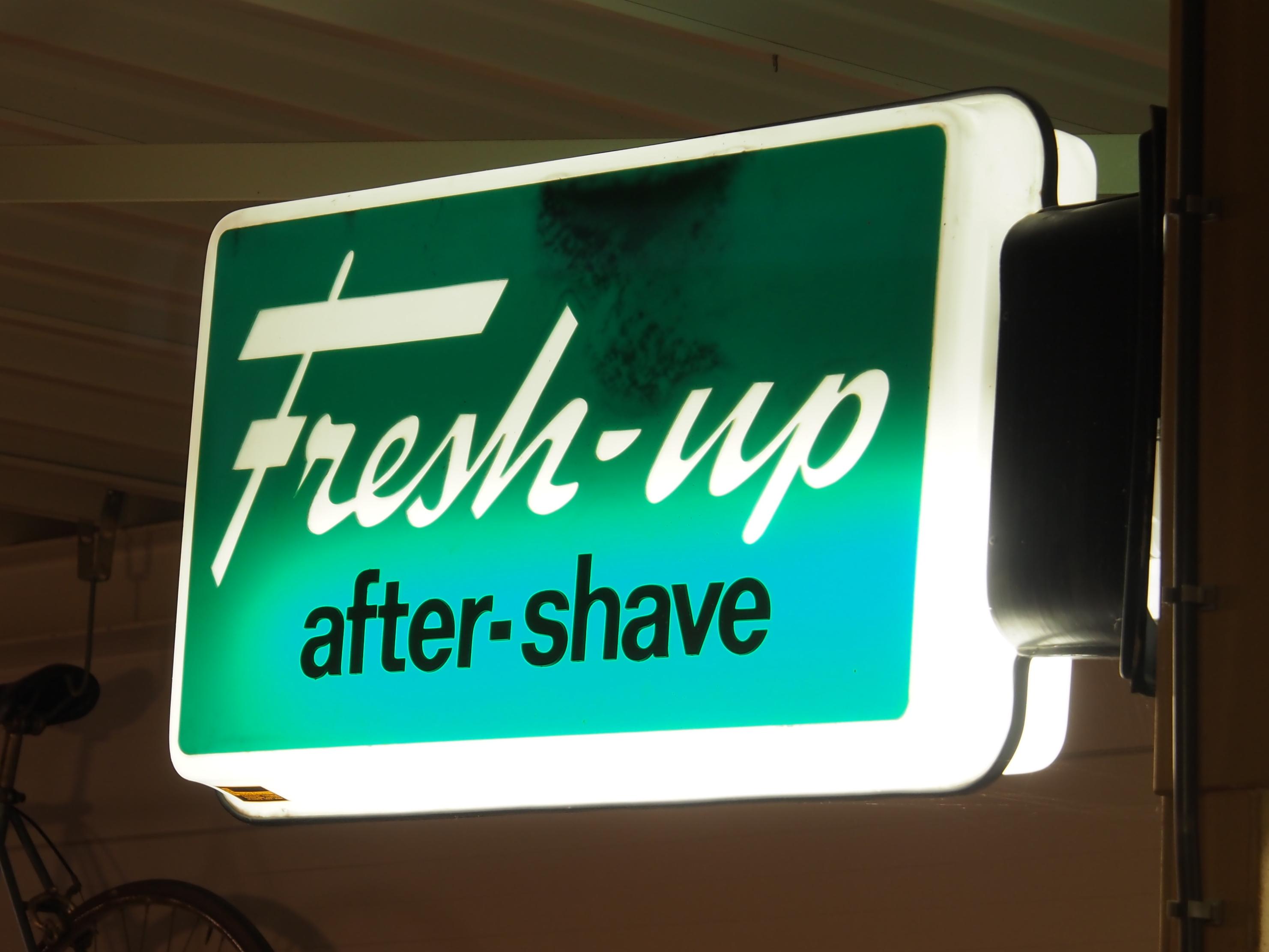 Photographed at the museum Museum Terug in de Tijd, The Netherlands.